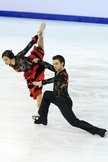 Sara Hurtado and Adria Diaz at the 2010 World Junior Figure Skating Championships.